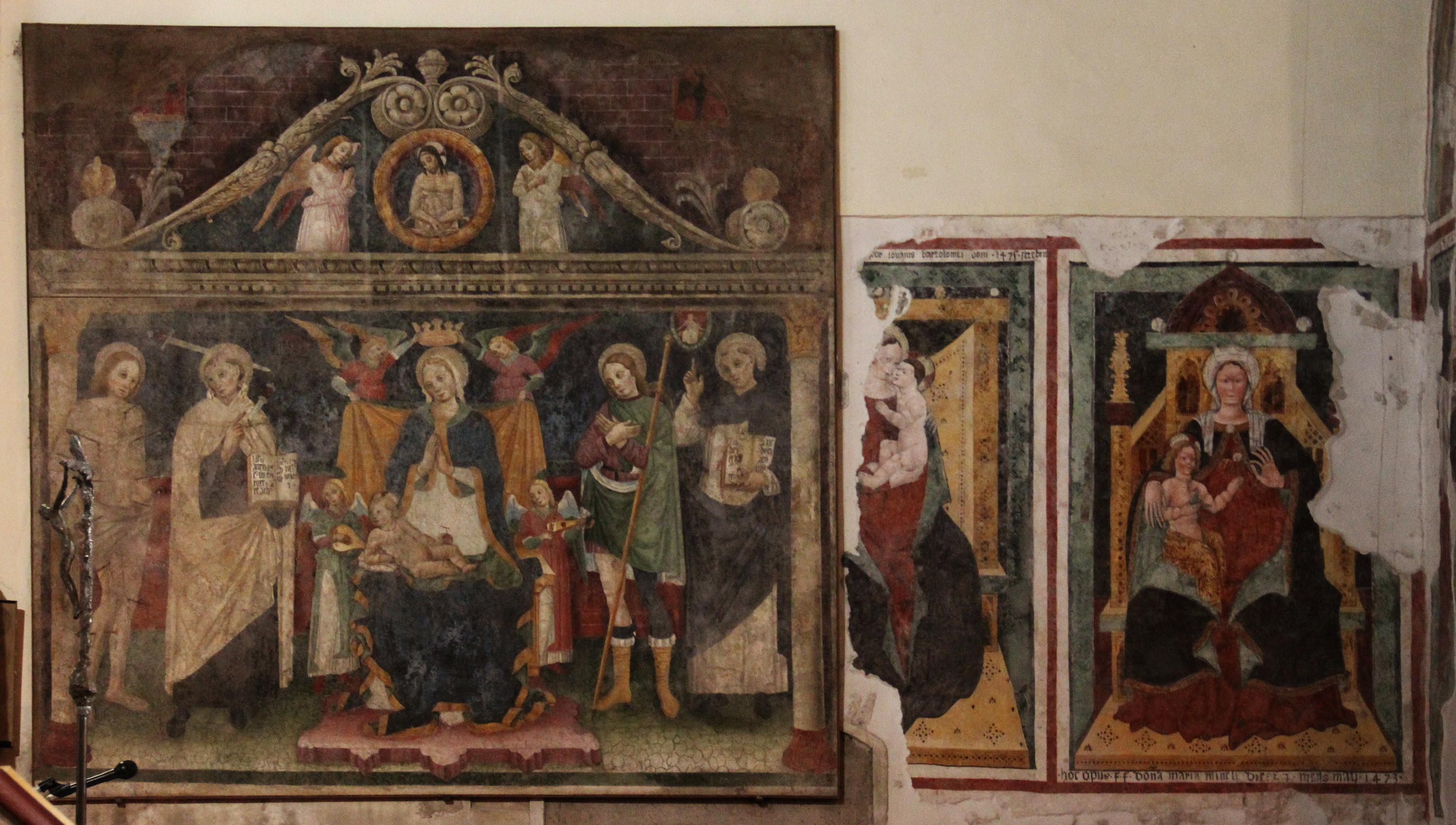 Frescos on the left wall, Santuario Madonna del Carmine, San Felice del Benaco Santuario Madonna del Carmine, San Felice del Benaco Native nameSantuario Madonna del Carmine, San Felice del BenacoLocationSan Felice del Benaco, Lombardy, ItalyCoordinates45° 34′ 49″ N, 10° 32′ 49″ E